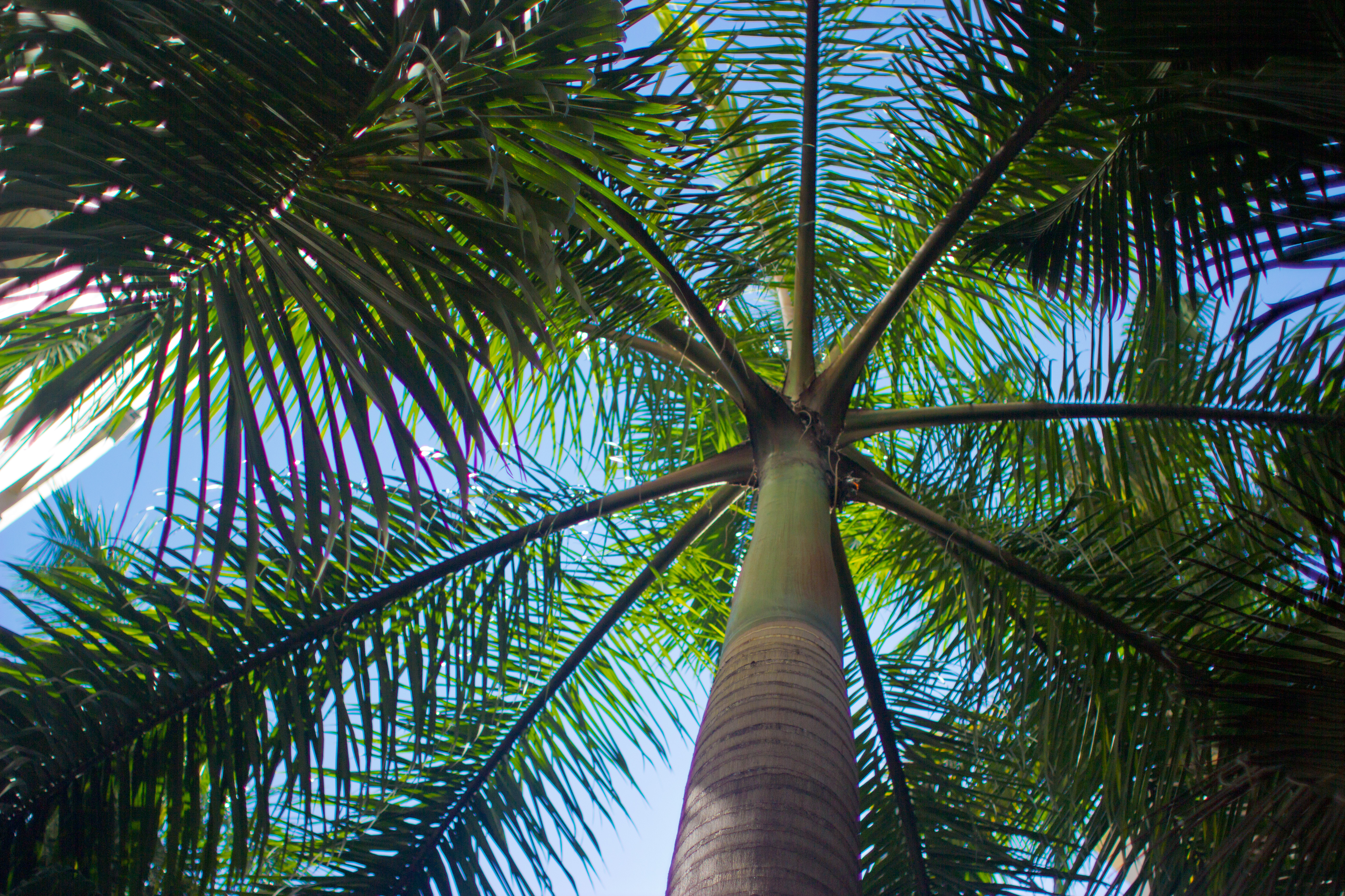 Rio de Janeiro Palm Tree